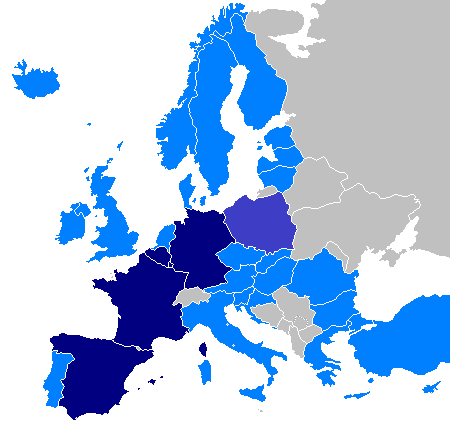 Based upon the free wikipedia blank-europe map Blue: Members of Eurokorps Medium blue: Poland full member 2016 Light blue: States that would be allowed to join